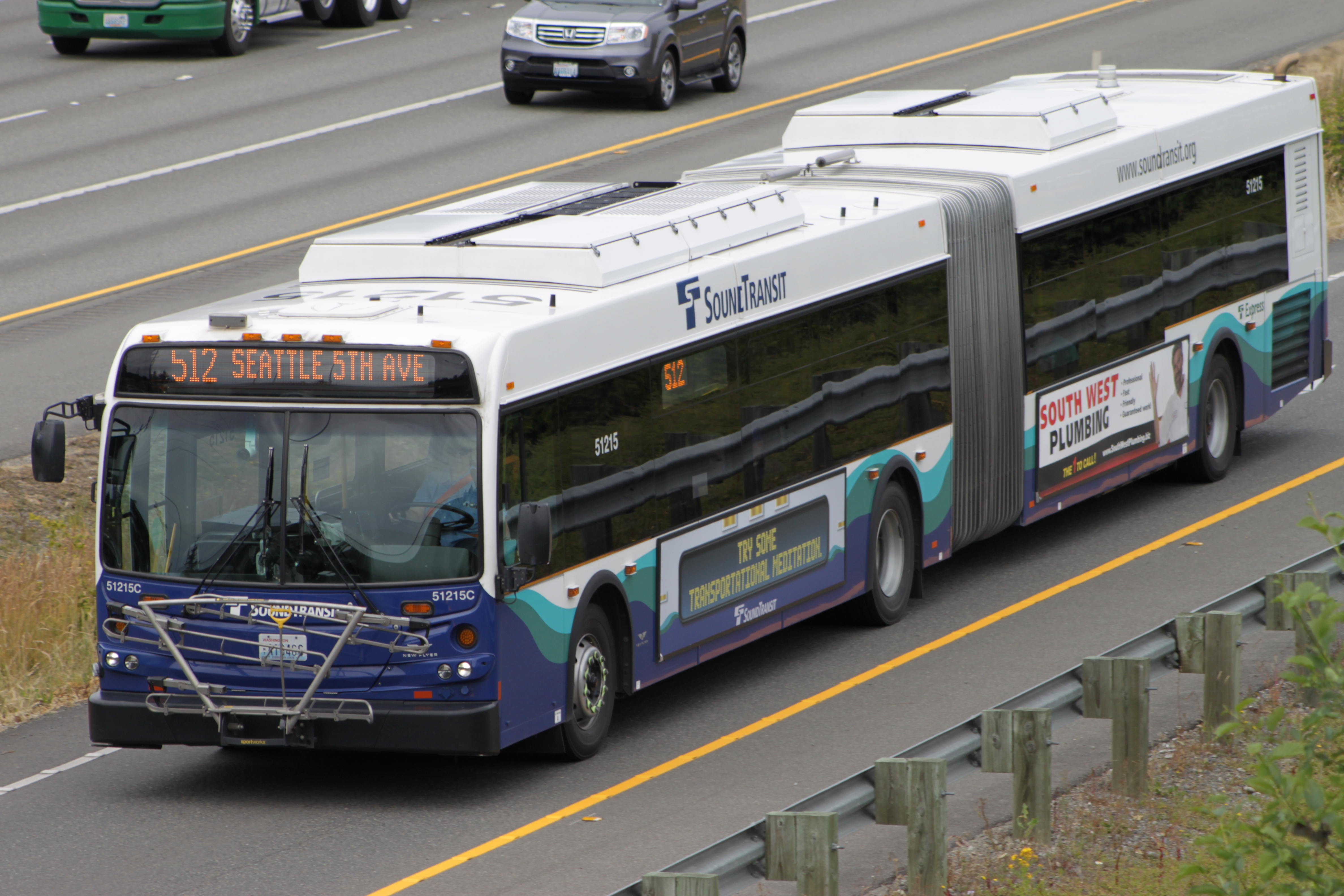 2012 New Flyer D60LFR on Sound Transit Express Route 512, operated by Community Transit